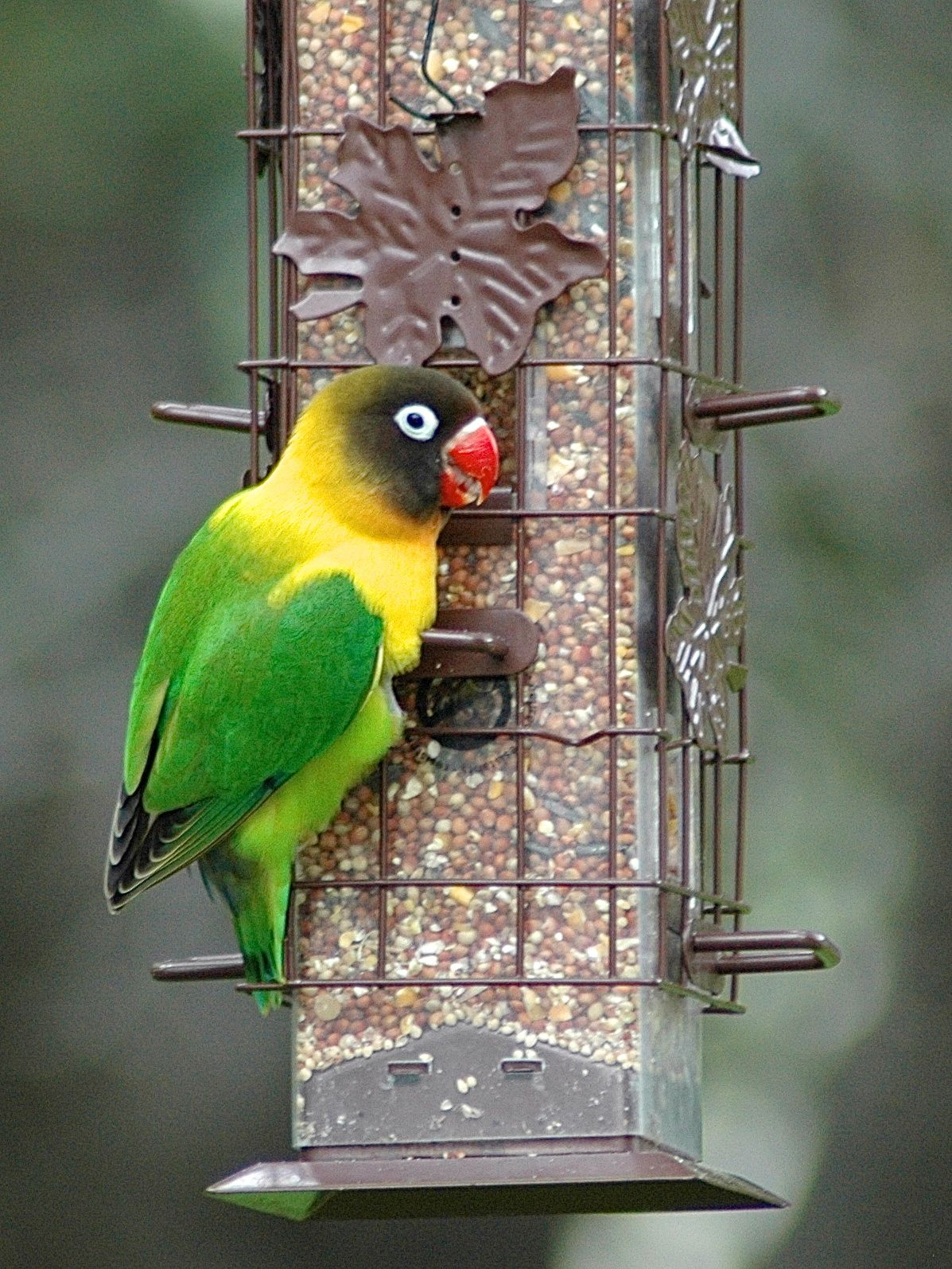 Escaped Yellow Collared Lovebird, feeding on a backyard feeder in Lakeway, Texas.